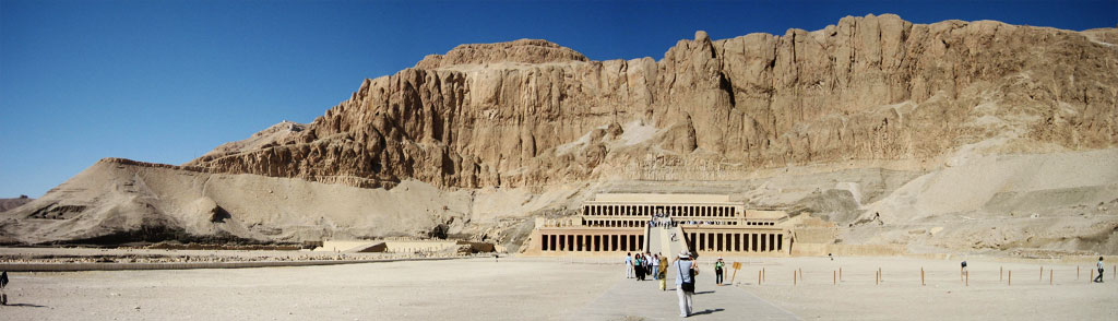 Benjamin Franck, picture taken by myself on nov 2005